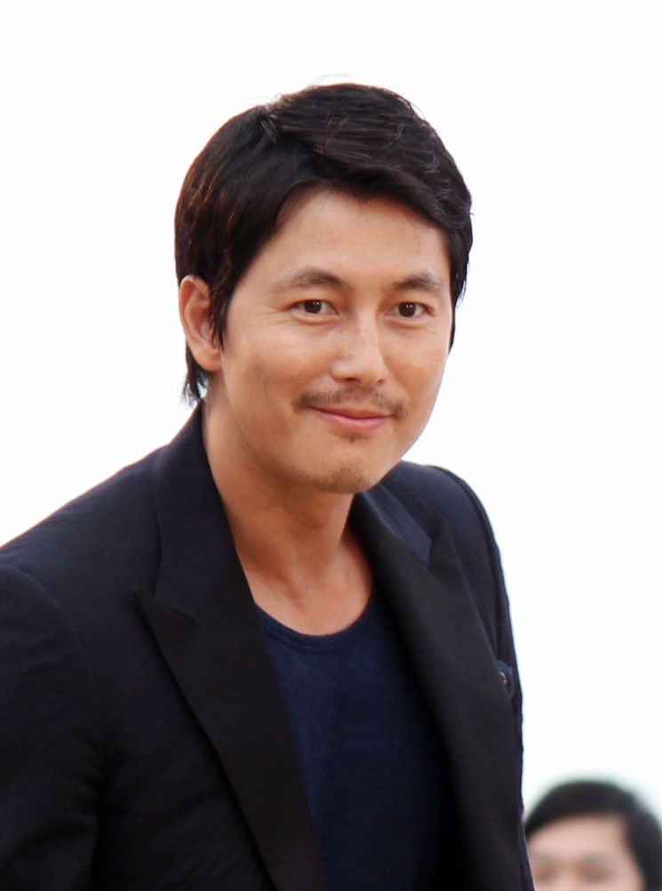 Jung Woo-sung at BIFF 2013